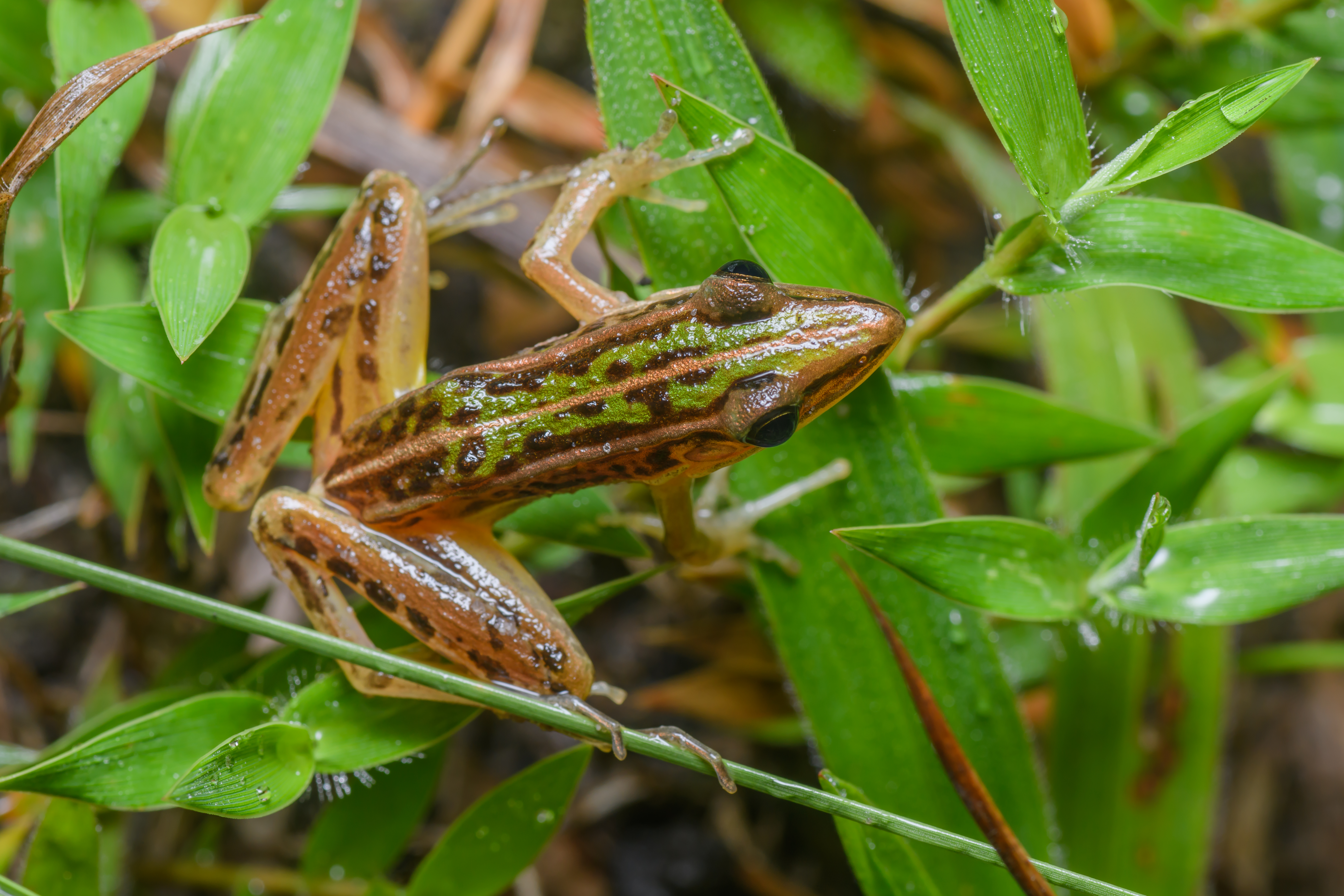 Hylarana macrodactyla, Long-toed frog - Phu Kradueng National Park. Photo by Thai National Parks